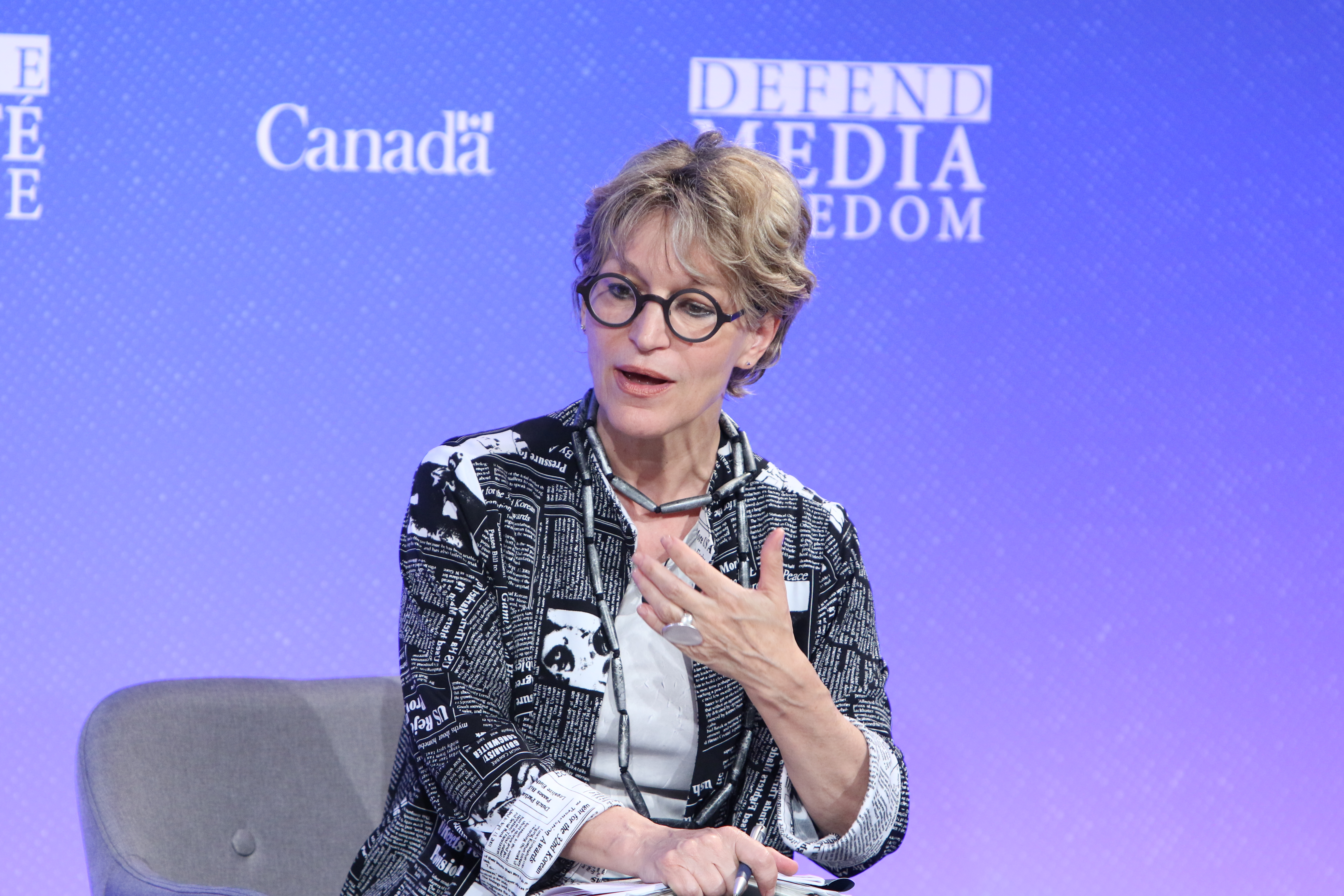 Agnès Callamard, UN Special Rapporteur on extrajudicial, summary and arbitrary executions at the Global Conference for Media Freedom in London.